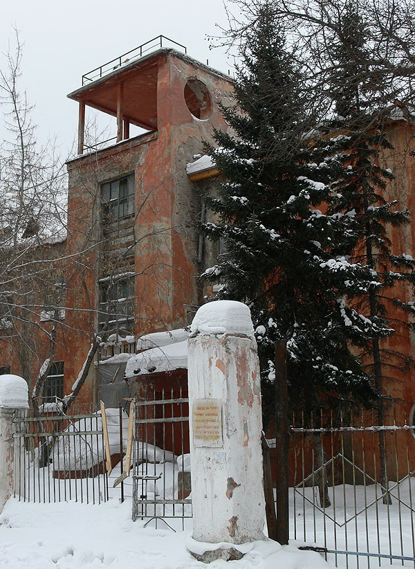 Constructivist architecture in Barnaul.